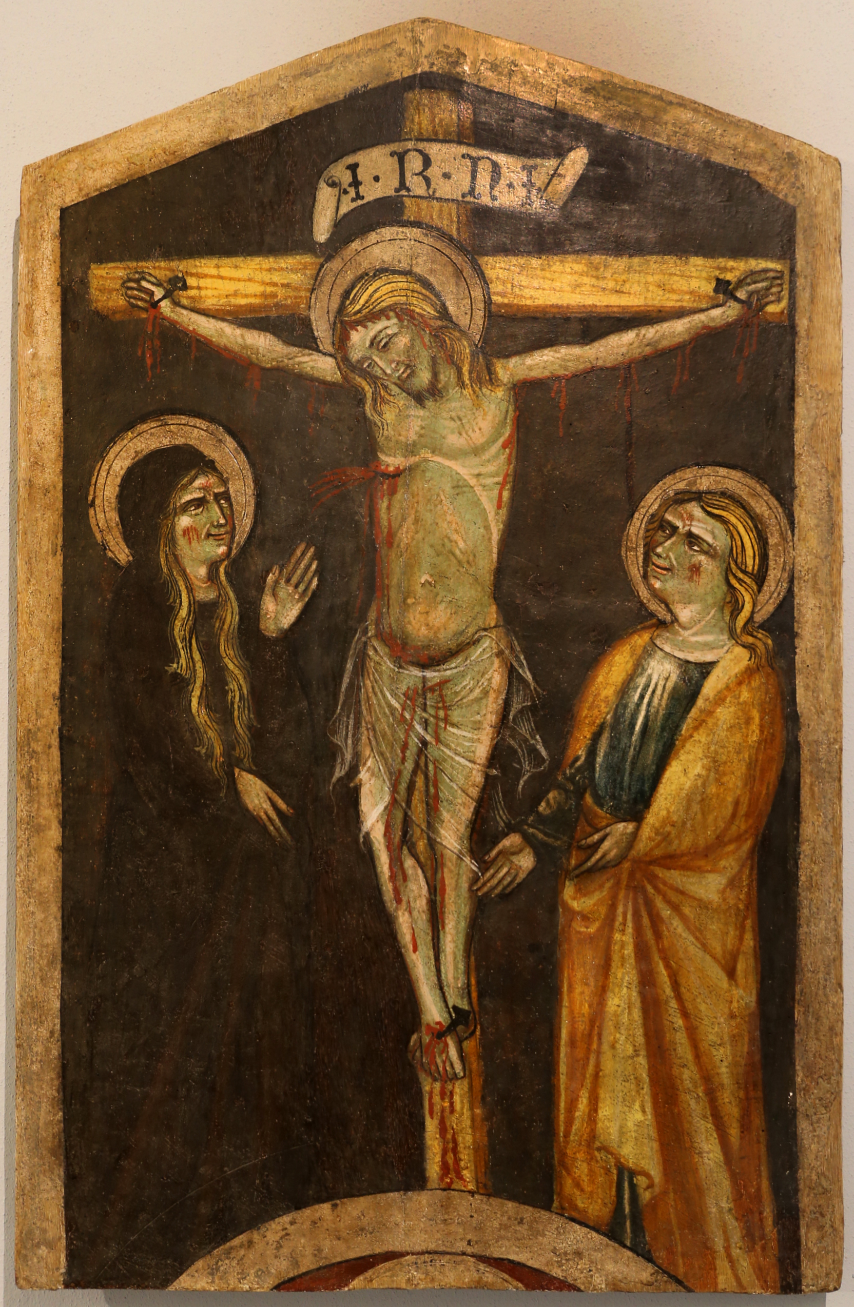 Paintings in the Museo nazionale d'Abruzzo